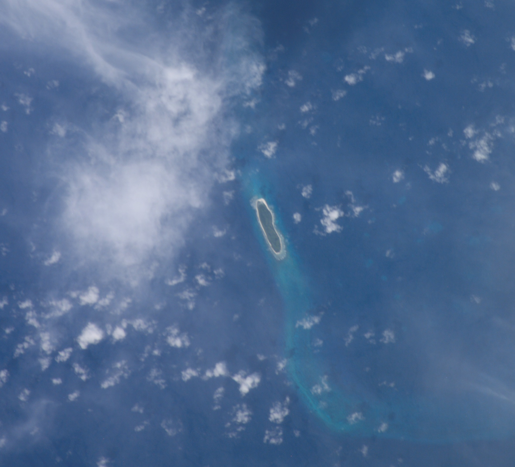 Astronaut picture of Danger Island, Chagos Archipelago, Indian Ocean